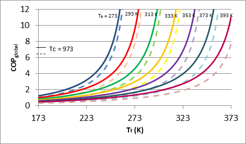 COP chart of duplex stirling machine